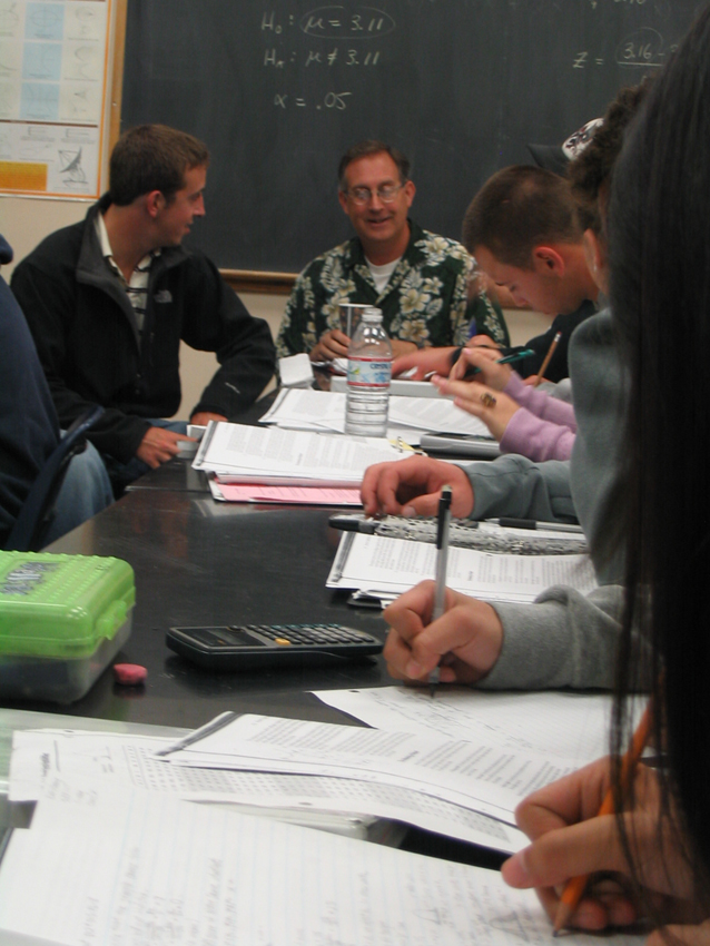 Statistics class at Piedmont High School Photo taken May 18, 2007.